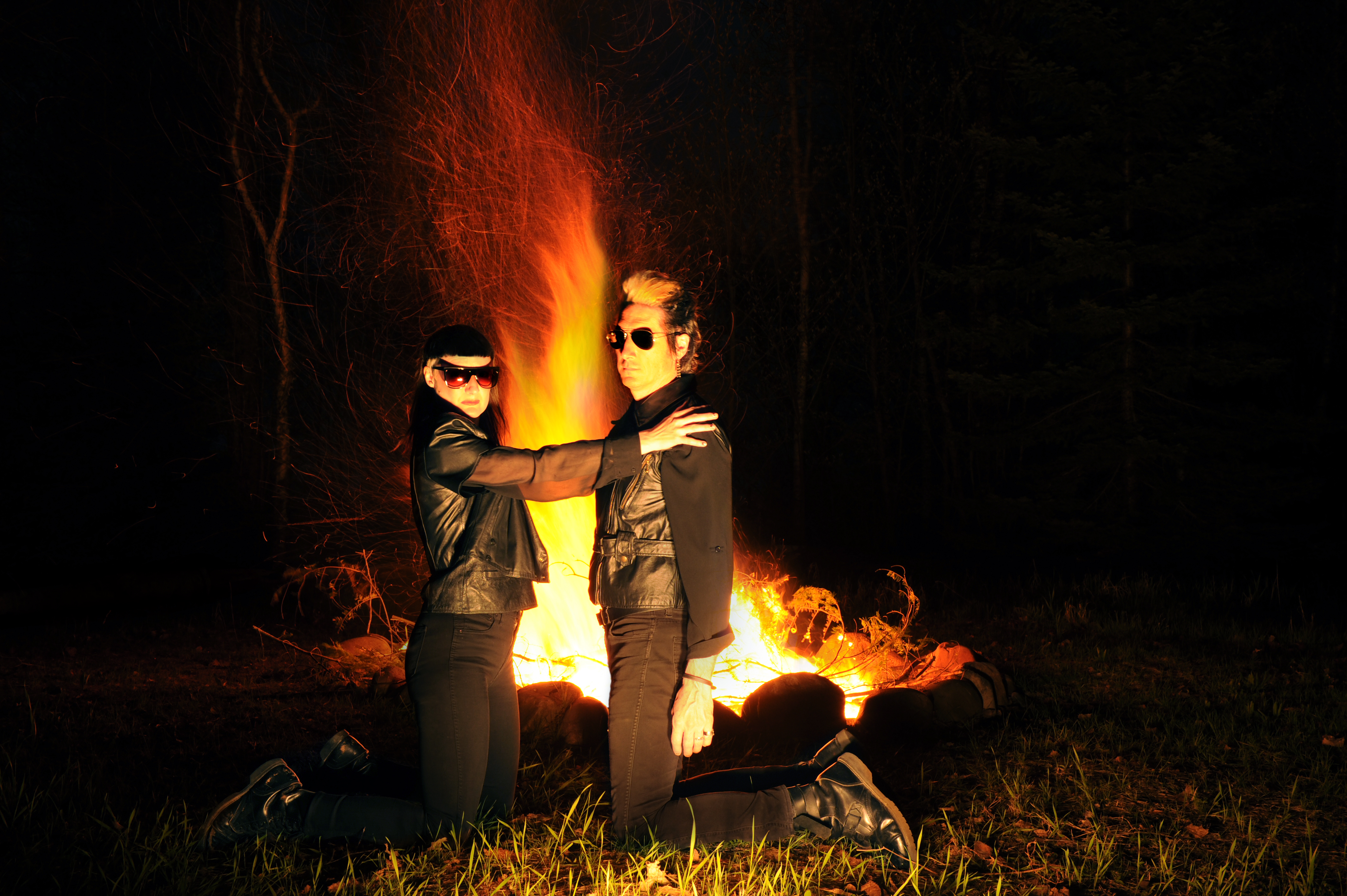 Image of the band ADULT.